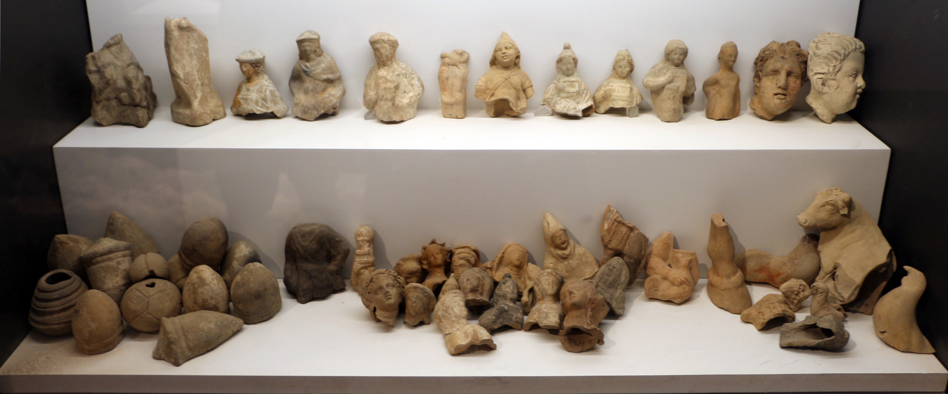 Antiquarium del Palatino (Rome)